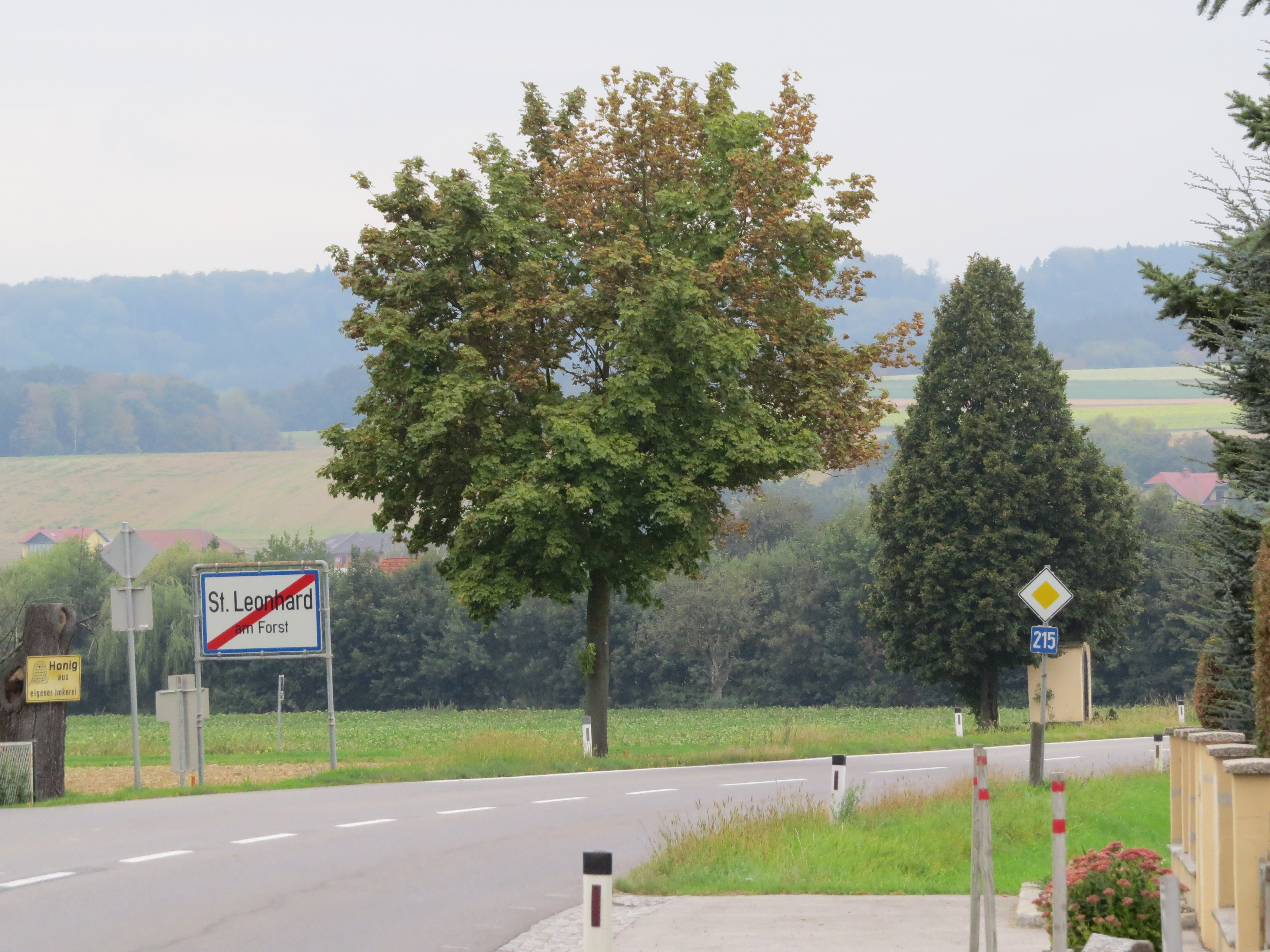 B 215 St. Leonharder Straße at St. Leonhard am Forst, Austria